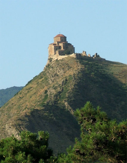 Jvari monastery, 6th century